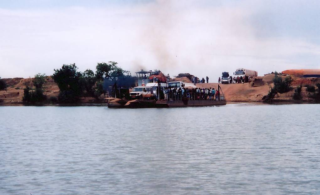 Crossing the river in Guinea. You never knew how long you'd wait for the ferry.